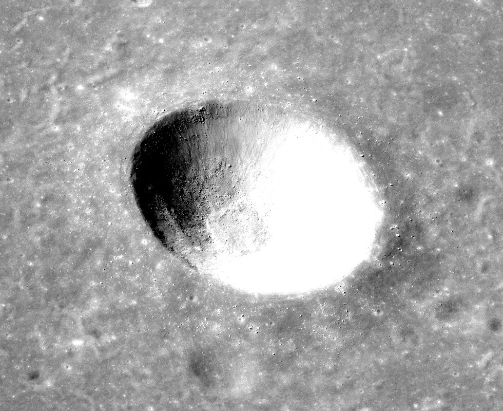 Oblique view of Curtis crater, within Mare Crisium, facing south, on the moon. Taken by Apollo 17 panoramic camera.